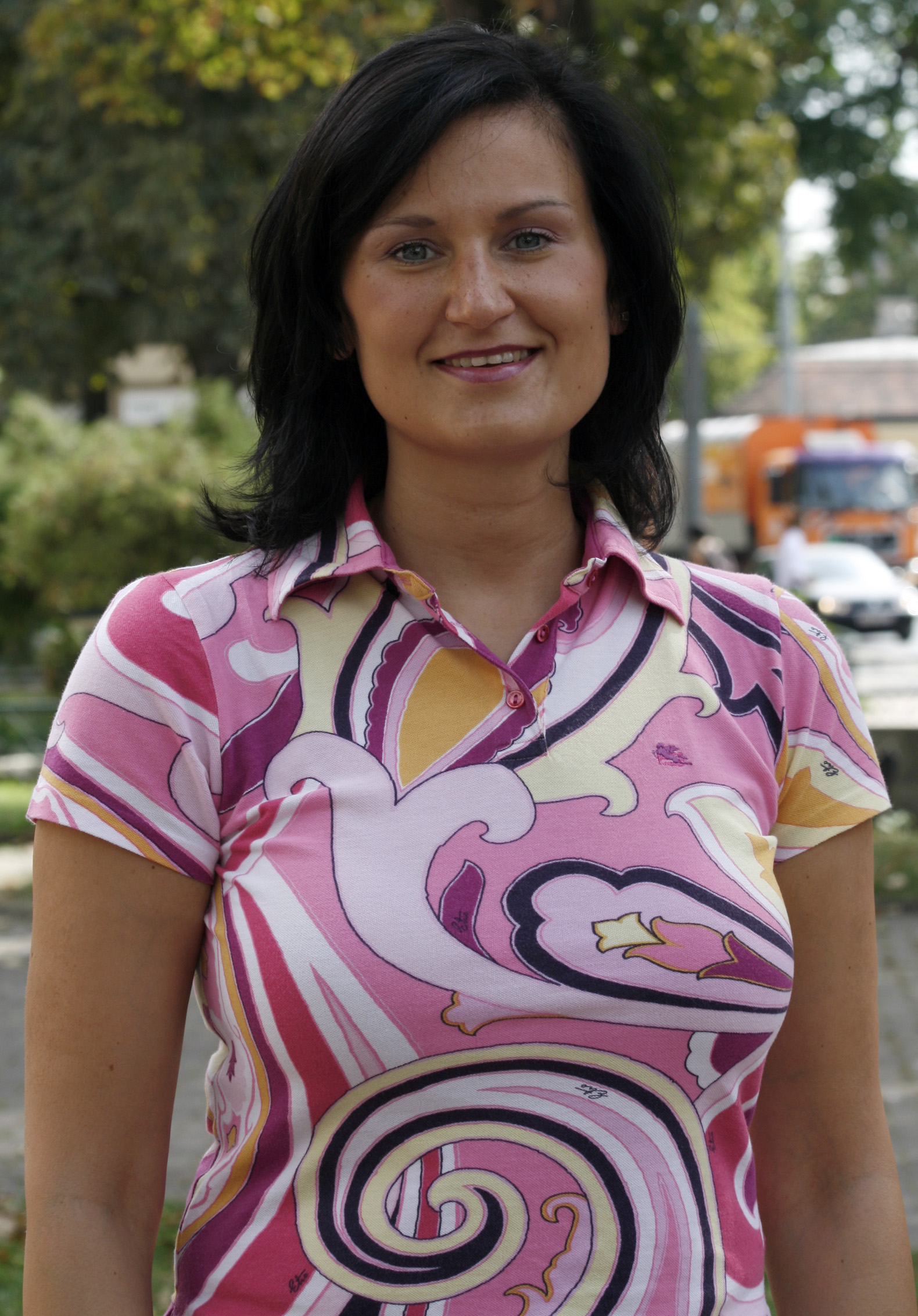 Austrian politician Silvia Fuhrmann (Austrian People's Party, ÖVP) during the campaign for the Austrian legislative election, 2008 (Vienna)